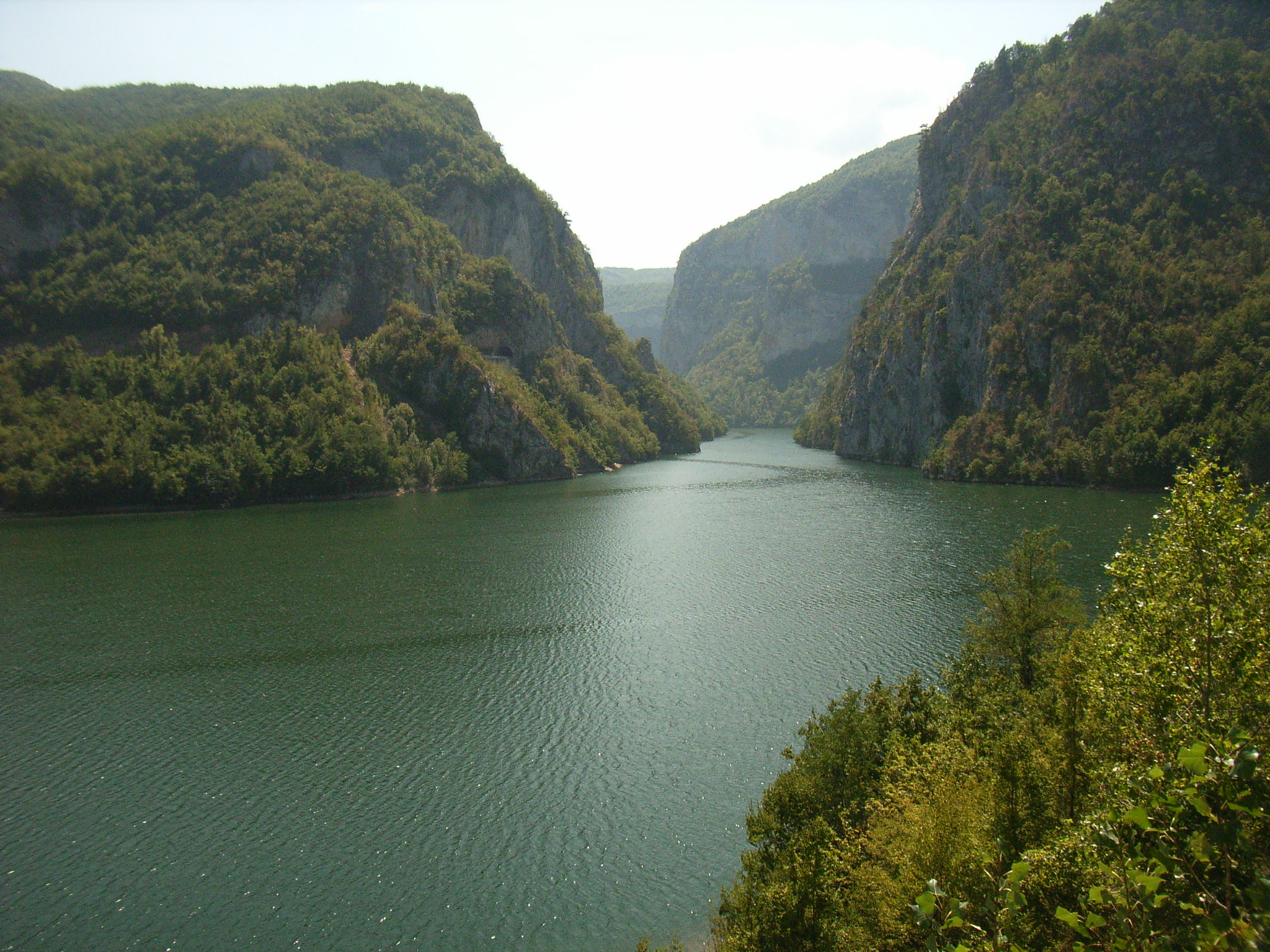 Mouth of River Lim into River Drina, Bosnia.